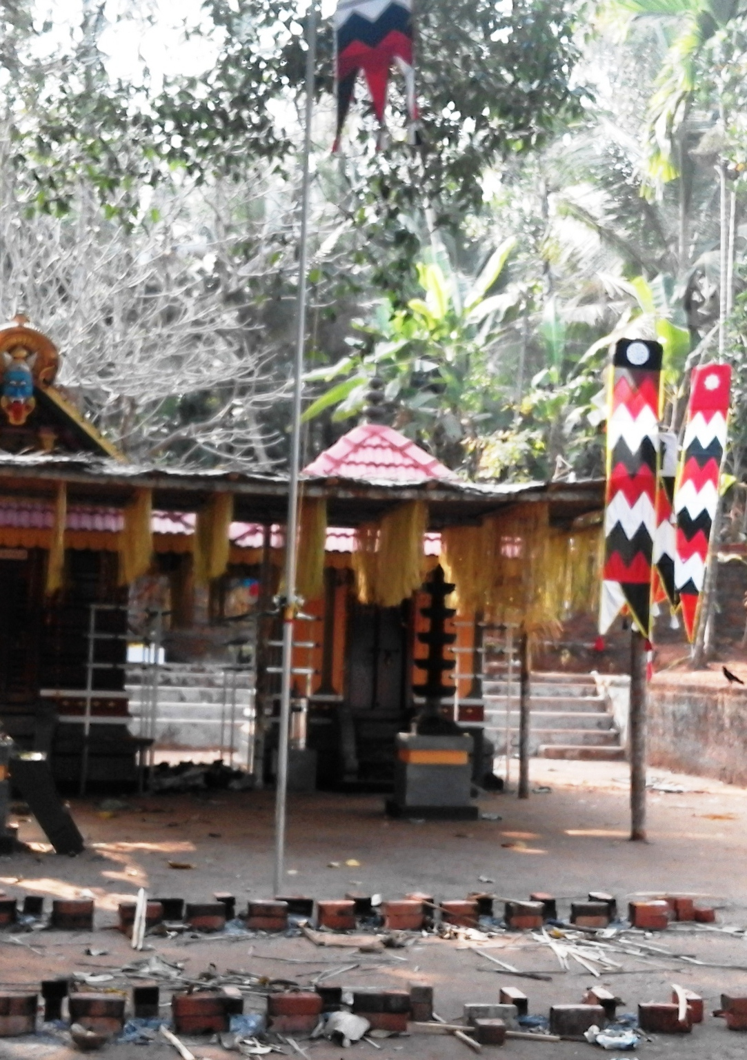 Ramanattukara, Kerala, India.